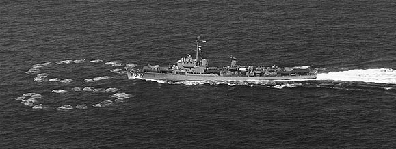 The U.S. Navy Gearing-class destroyer USS Sarsfield (DD-837) taking part in anti-submarine warfare exercises, 15 June 1950. Sarsfield has fired a dual "Hedgehog" pattern, and is over-running the impact area.